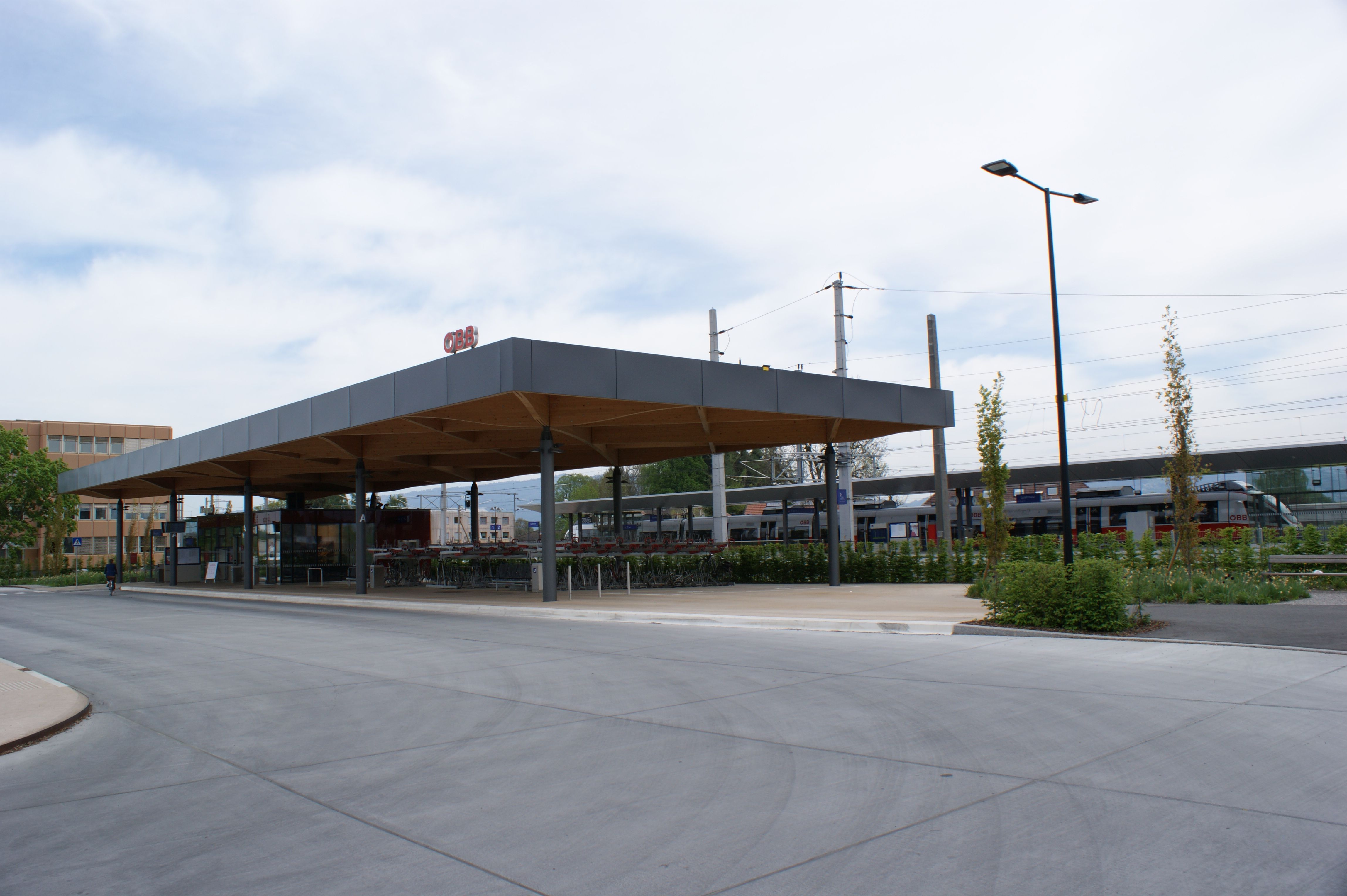 The Railwaystation, which was completed in 2019 in Lustenau, Vorarlberg, Austria.